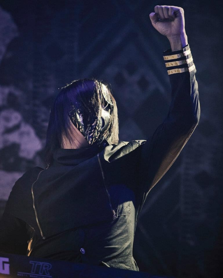 CJ Kao